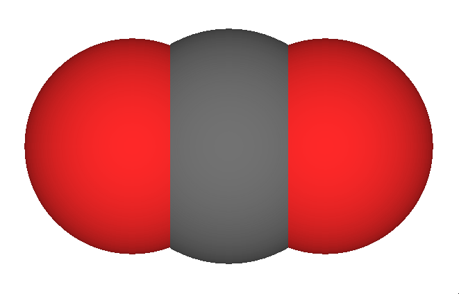 3D representation of carbon dioxide created with ChemDraw.